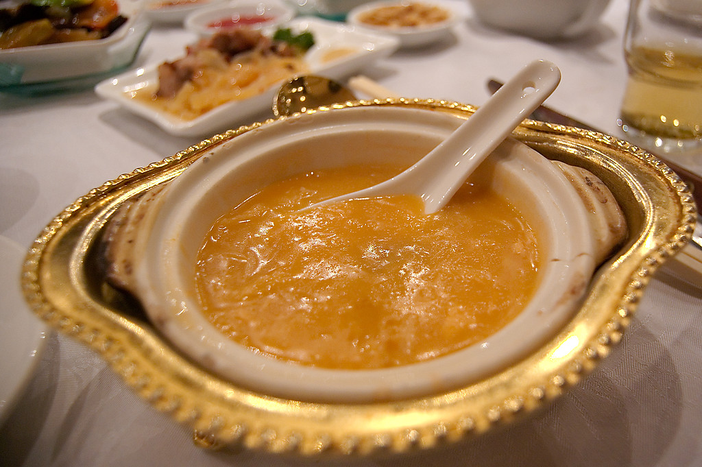 Shark Fin's Soup with Crab Cream